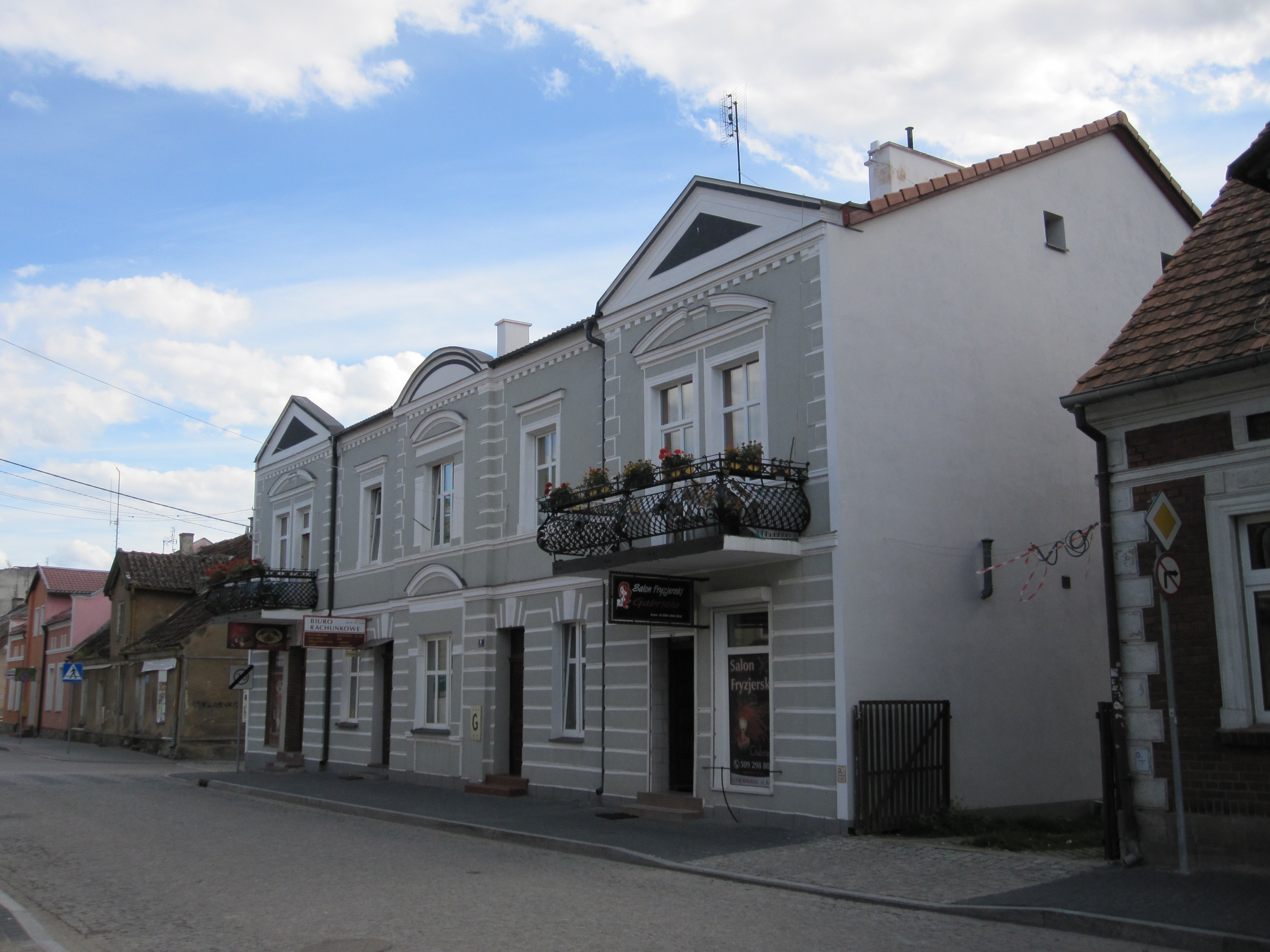 Building No. 4 on Kajki Street in Mikołajki